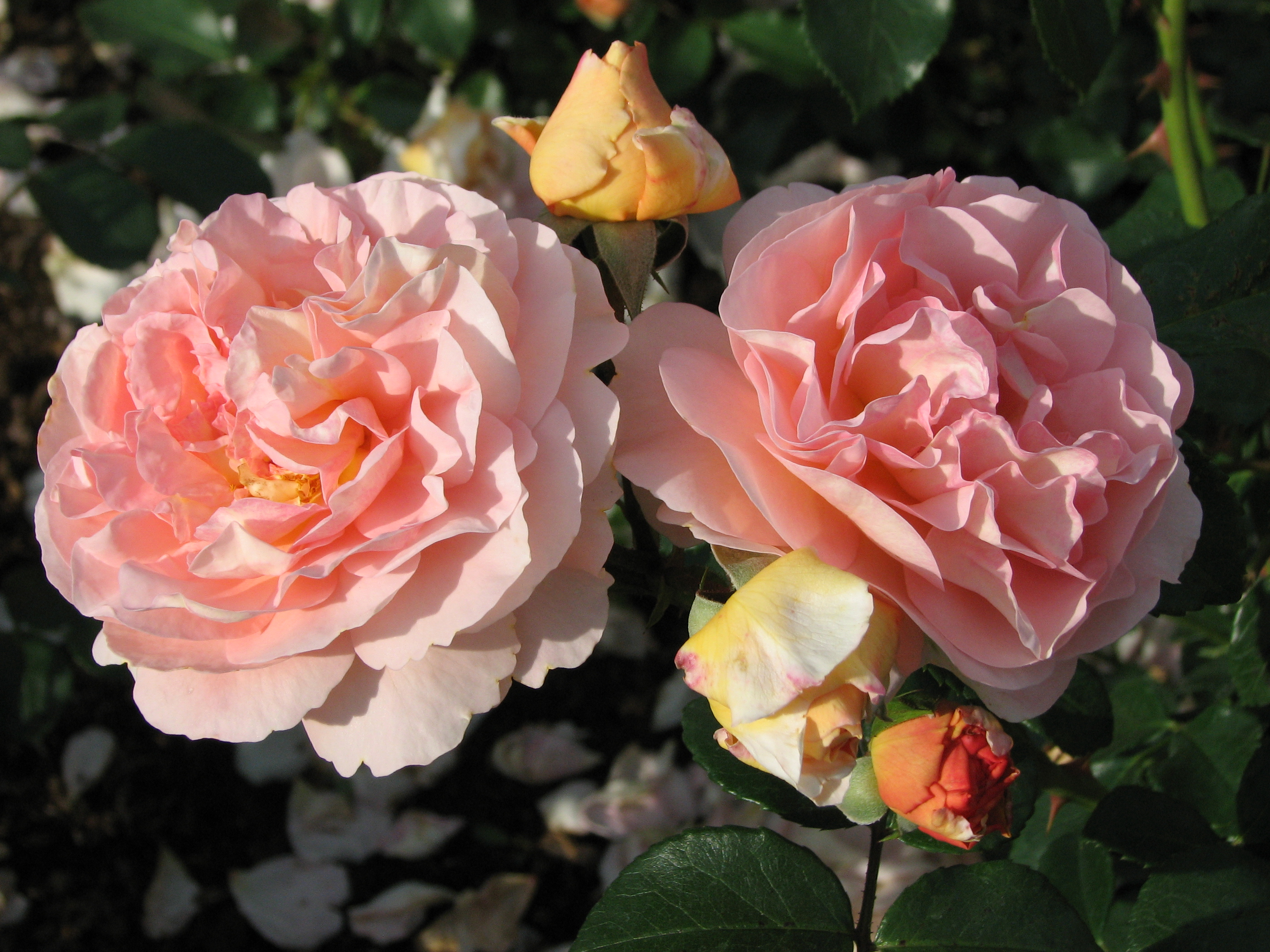 Rosa 'Sangerhäuser Jubiläumsrose' (Kordes, 2003). From the collection of the Main Botanical Garden of Academy of Sciences in Moscow (Rosarium).